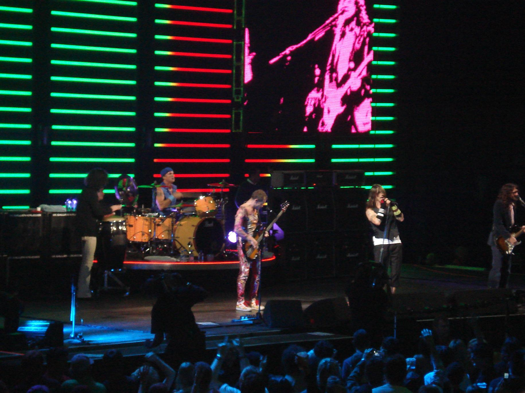 The Red Hot Chili Peppers playing in Toronto with a member of the Mars Volta at the Air Canada Centre